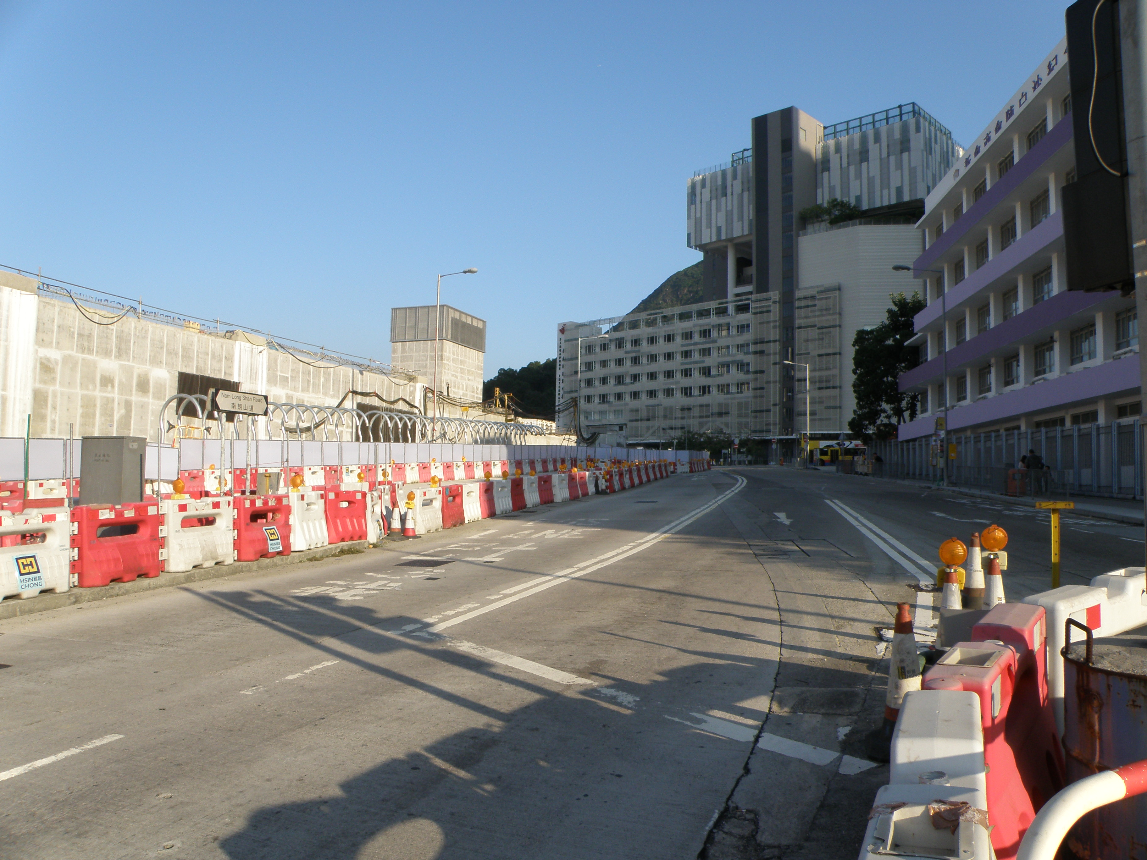 Nam Long Shan Road in Wong Chuk Hang, Hong Kong.